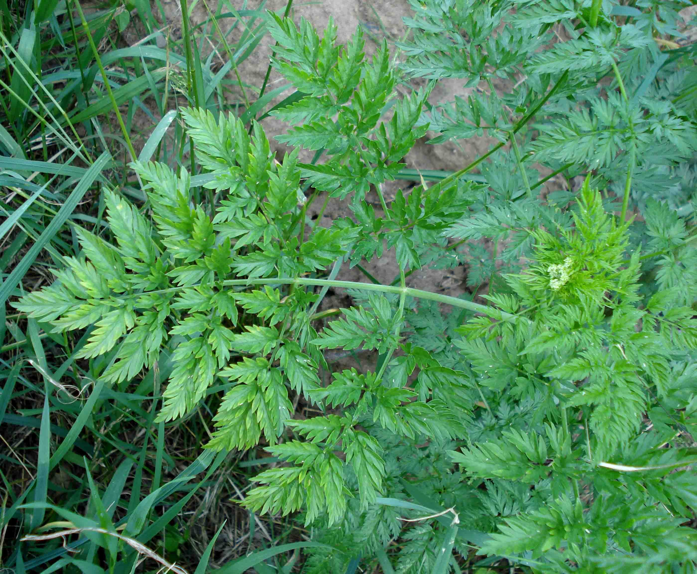 Chaerophyllum bulbosum (Unterfranken, Germany)